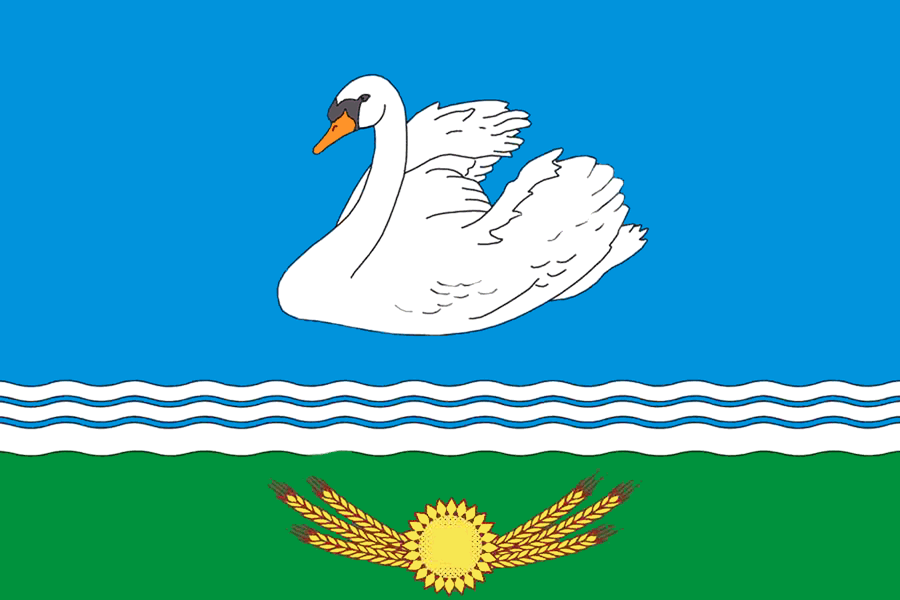 Flag of Razdolnensky rayon, Crimea, Russia